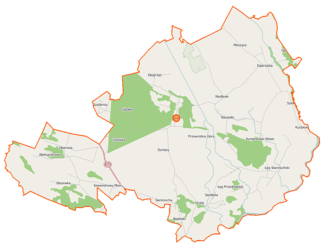 Map of Gmina Lelis, Poland This map of Lelis (gmina) was created from OpenStreetMap project data, collected by the community. This map may be incomplete, and may contain errors. Don't rely solely on it for navigation. Border coordinates53.252321.3722←↕→21.713153.0973